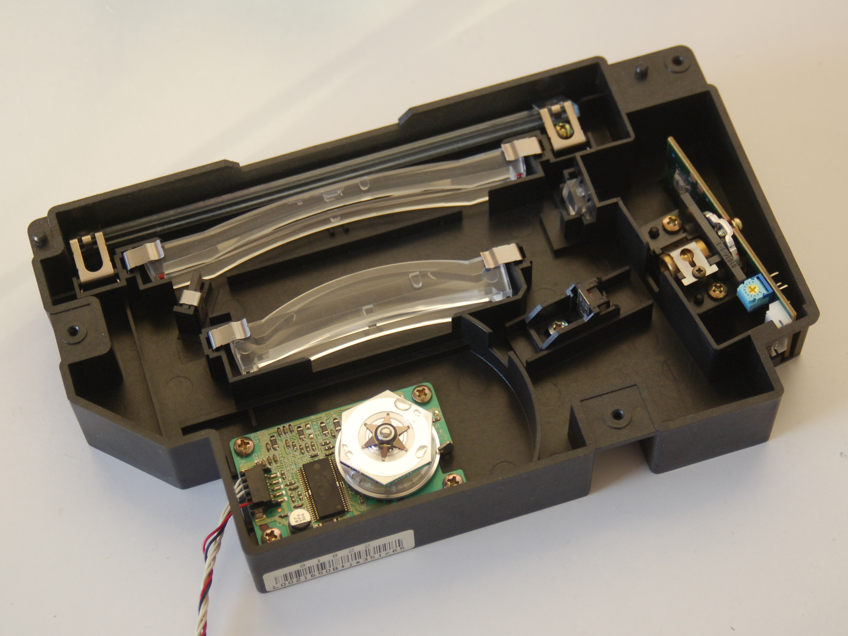 Laser unit of a 2003 Dell P1500 laser printer. Visible are the rotating 6 sided mirror with the high speed BLDC motor on the lower left; the laser unit with feedback sensor on the right side; and the lenses and mirrors to guide the laser light to the photosensitive drum.